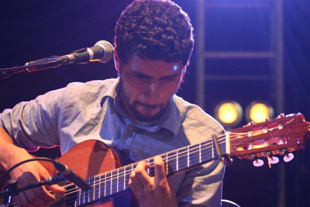 José González performing live